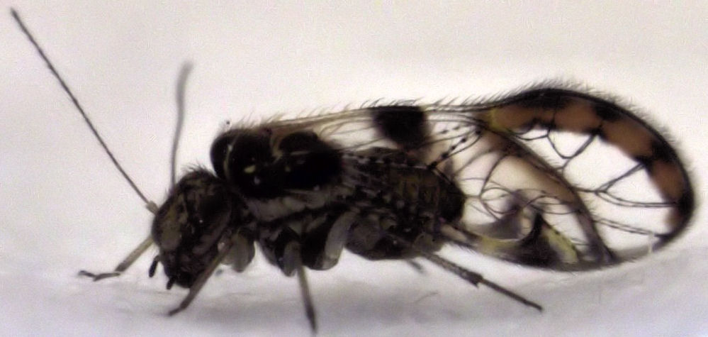 Abelopsocus basipunctatus, live female (fore wing length about 3mm)